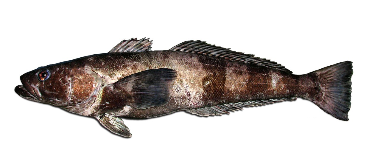 Dissostichus mawsoni Norman, 1937, 87 cm TL, 77 cm SL, Ross Sea, 20 December 2009, depth 1450 m